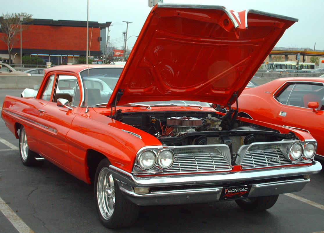 1961 Pontiac Strato Chief photographed in Montreal, Quebec, Canada at Gibeau Orange Julep.